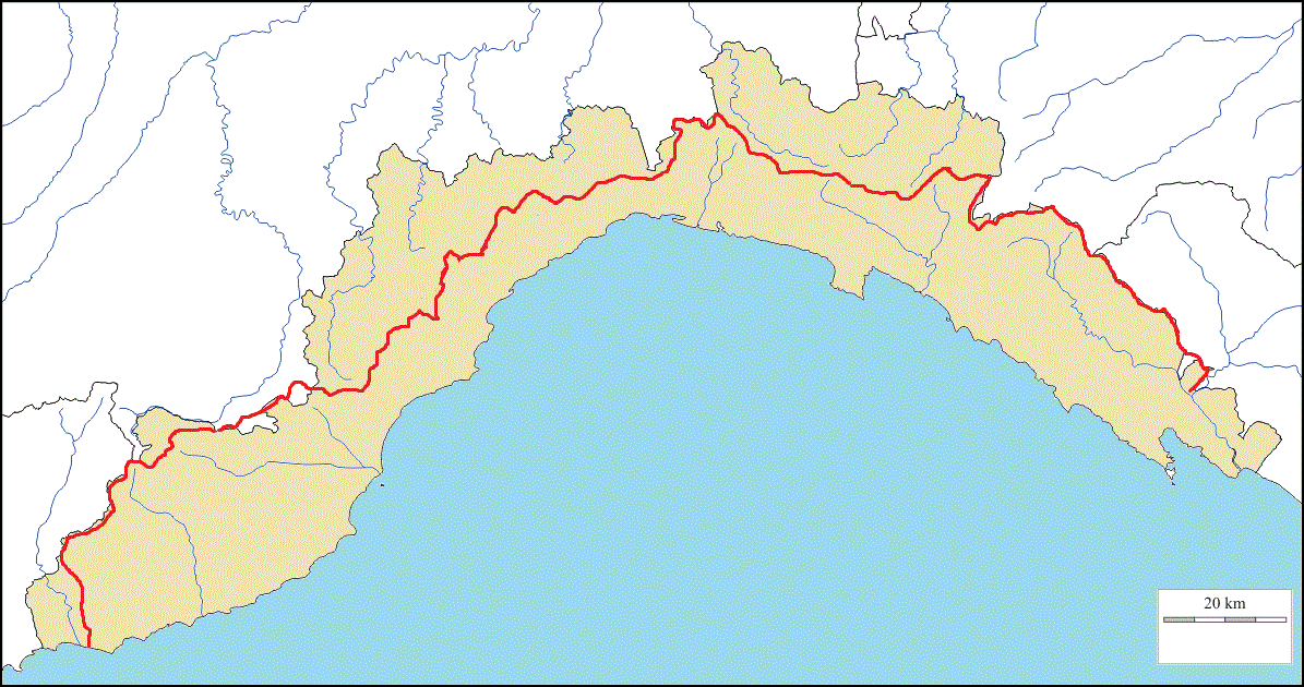 Maps of Alta Via dei Monti Liguri